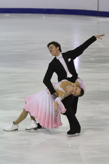 Nikola Višňová and Lukáš Csolley at the 2010 World Junior Figure Skating Championships.OD.